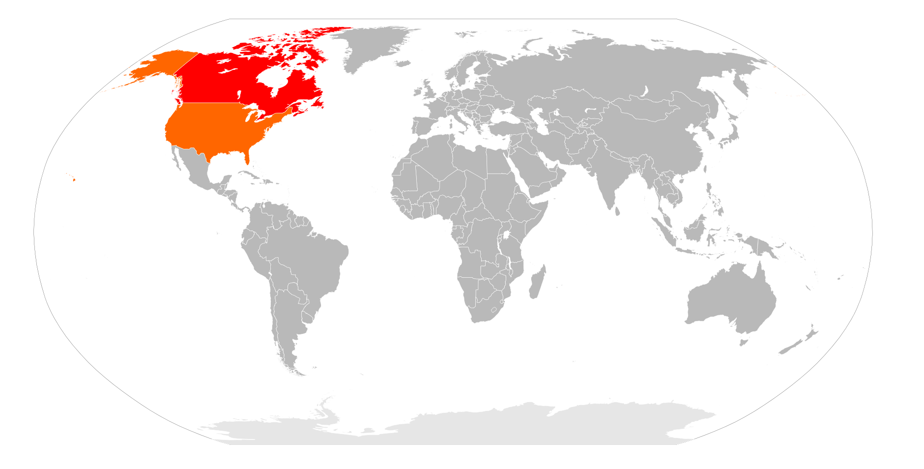 Areas of national and international rates for a mail given to Canada Post in the 2000s.Legend :Red : interior rates.Orange : rates for the United States.Grey : international rates.